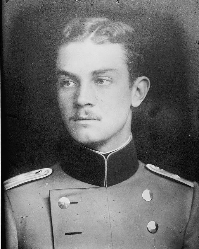 Ernest Augustus, Duke of Brunswick (1887-1953)